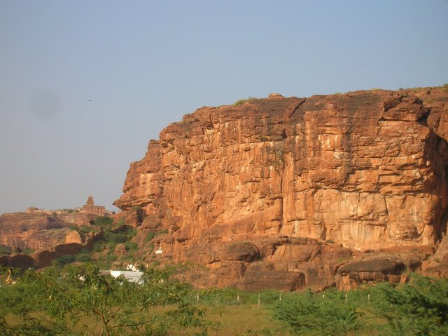 Badami, Karnataka, India